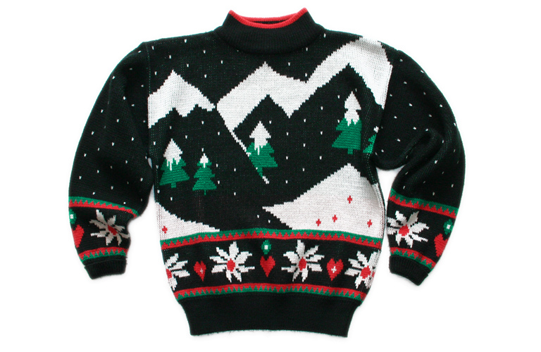 Classic vintage 80s ugly Christmas sweater.